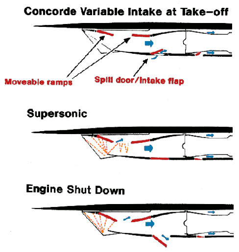 System depiction of Concorde intake operating.